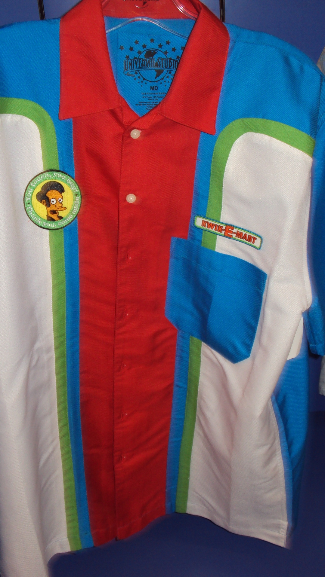 Apu Nahasapeemapetilon's shirt at Universal Studios, Orlando, FL